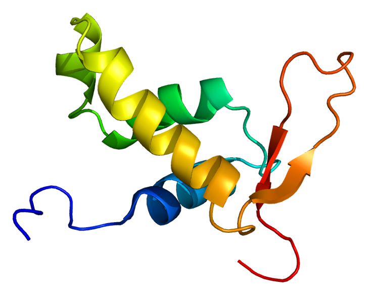 Structure of the MLLT7 protein. Based on PyMOL rendering of PDB 1e17.